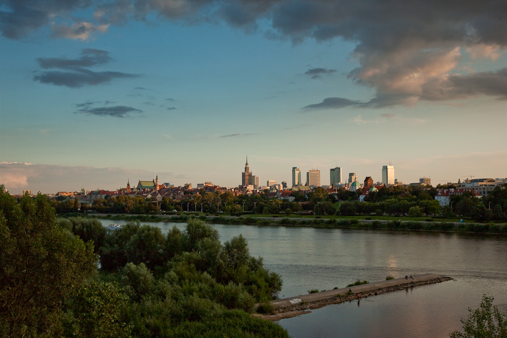 Panorama of Warsaw by the Vistula River